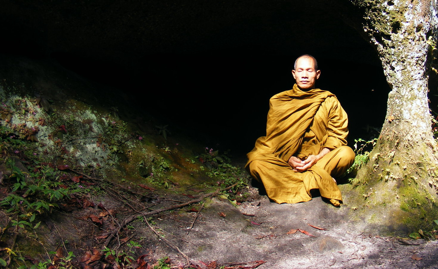 Luang Phor Somchai of Wat Khung Taphao Location: Phuhinrongkla National Park Thailand.